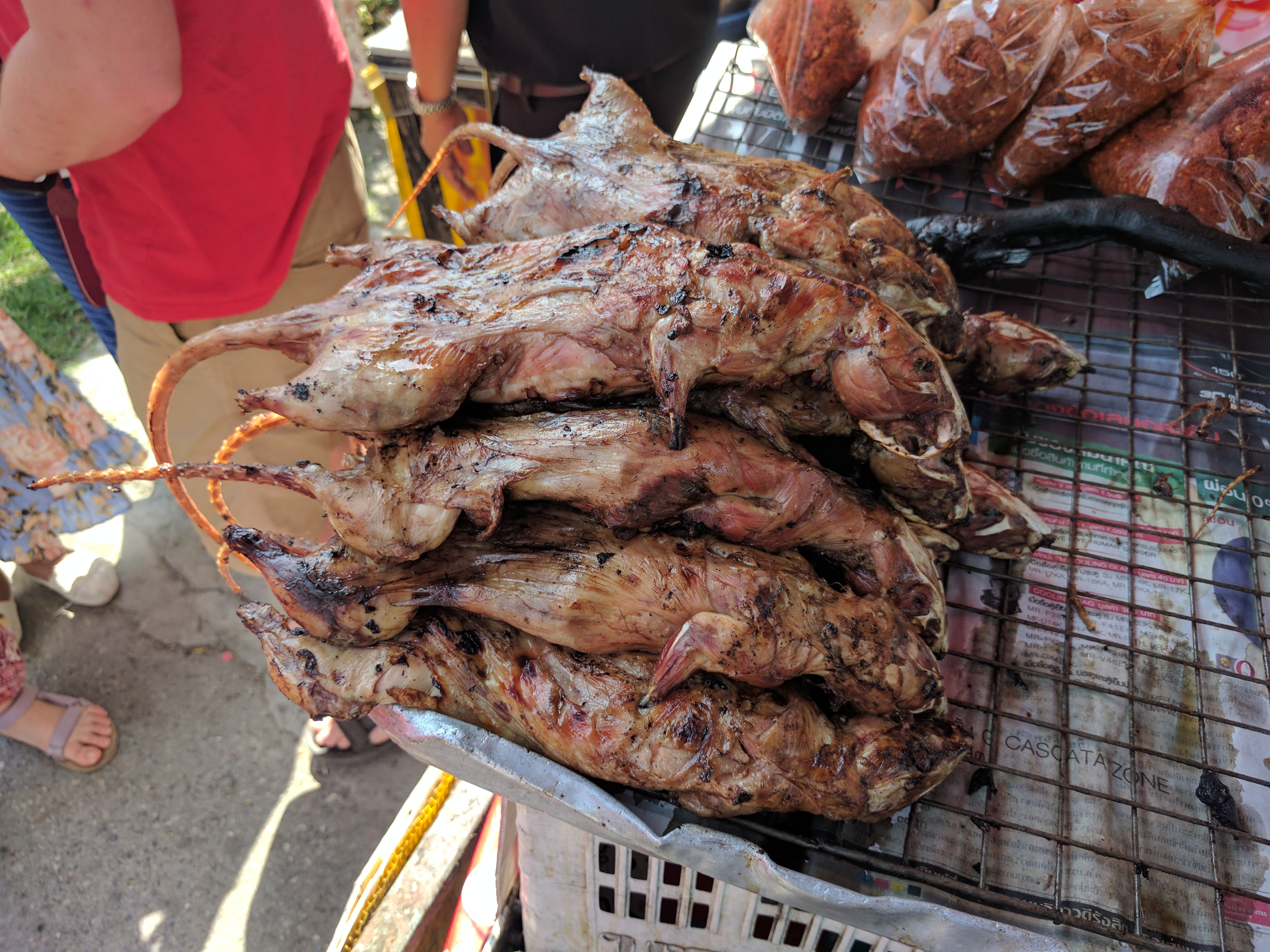 Barbecued rats for sale at a roadside stand west of Suphan Buri. We were told that they'd been caught in the nearby ride paddies, and that we couldn't eat them, because they were only partially cooked.